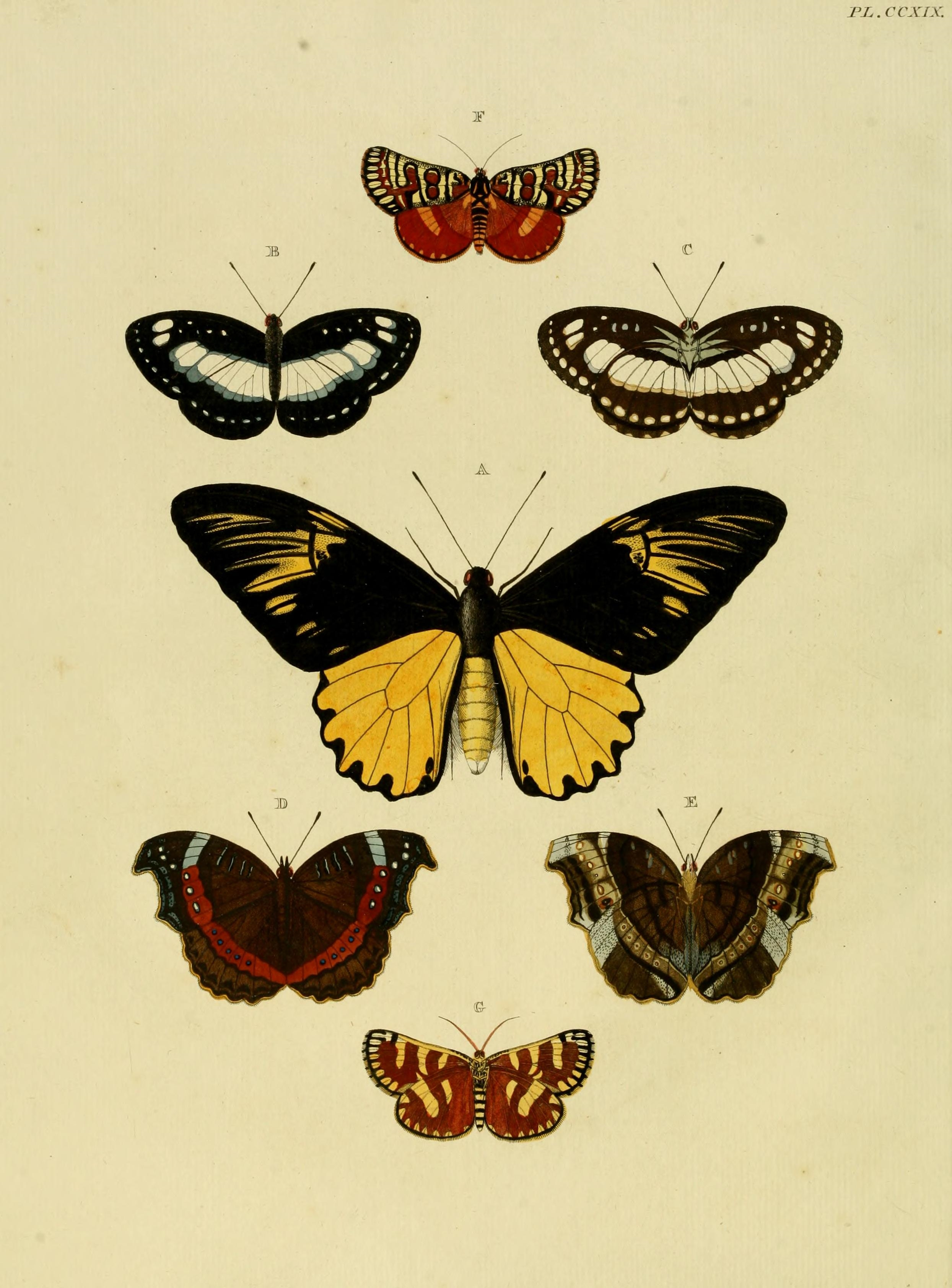 Plate CCXIX A: "(Papilio) Amphrysus" ( = Troides amphrysus (Cramer, [1779]), iconotype?), see Funet. Photo at Barcode of Life. B, C: "(Papilio) Venilia" ( = Pantoporia venilia (Linnaeus, 1758)), see Funet. Photos at Barcode of Life. D, E: "(Papilio) Archesia" ( = Precis archesia (Cramer, [1779]), iconotype?), see Funet.